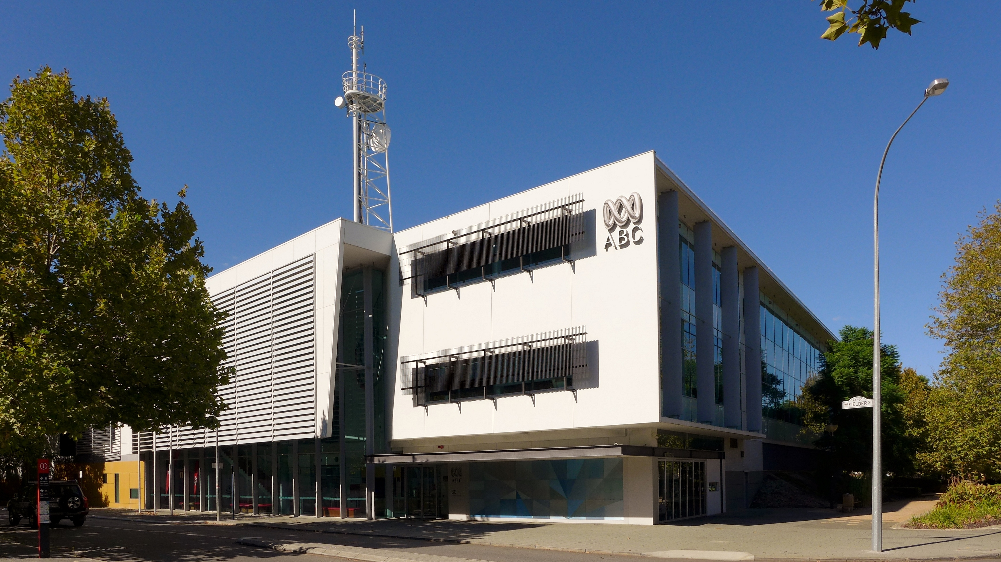 View of the ABC Perth studio, Fielder Street, East Perth, Western Australia.